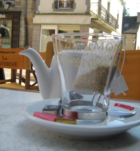 After visiting le chateau de Josselin, we were ready for a nice cup of tea!